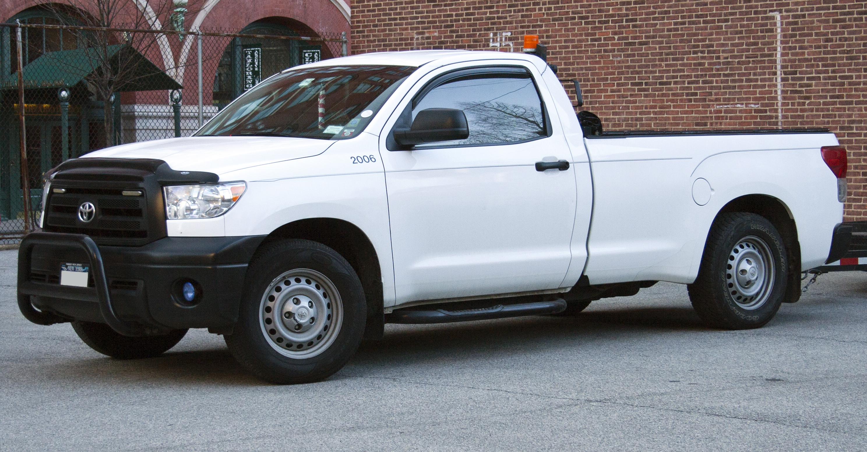 2010-2012 Toyota Tundra regular cab, long-bed, belonging to the City of New York